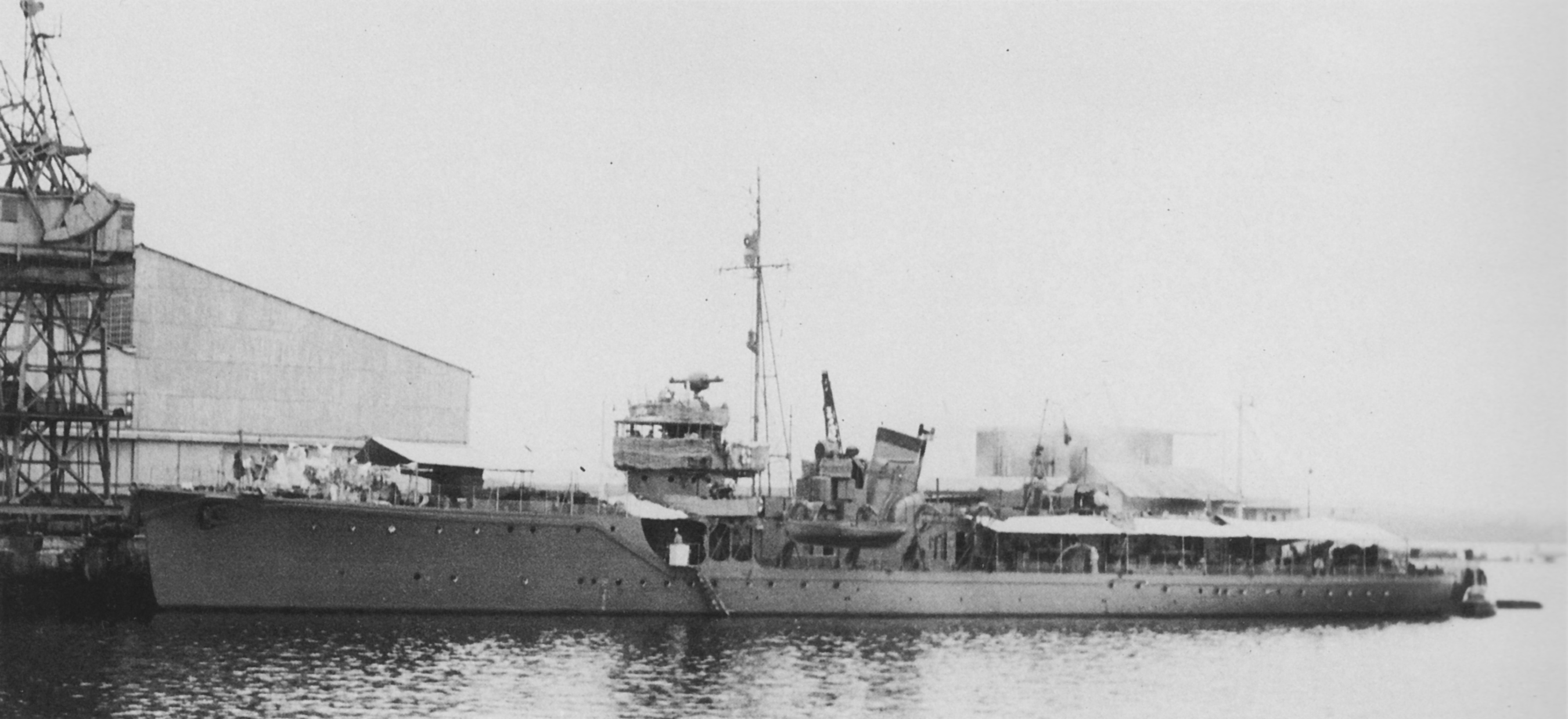 Japanese escort ship Shimushu under repair in Singapore.